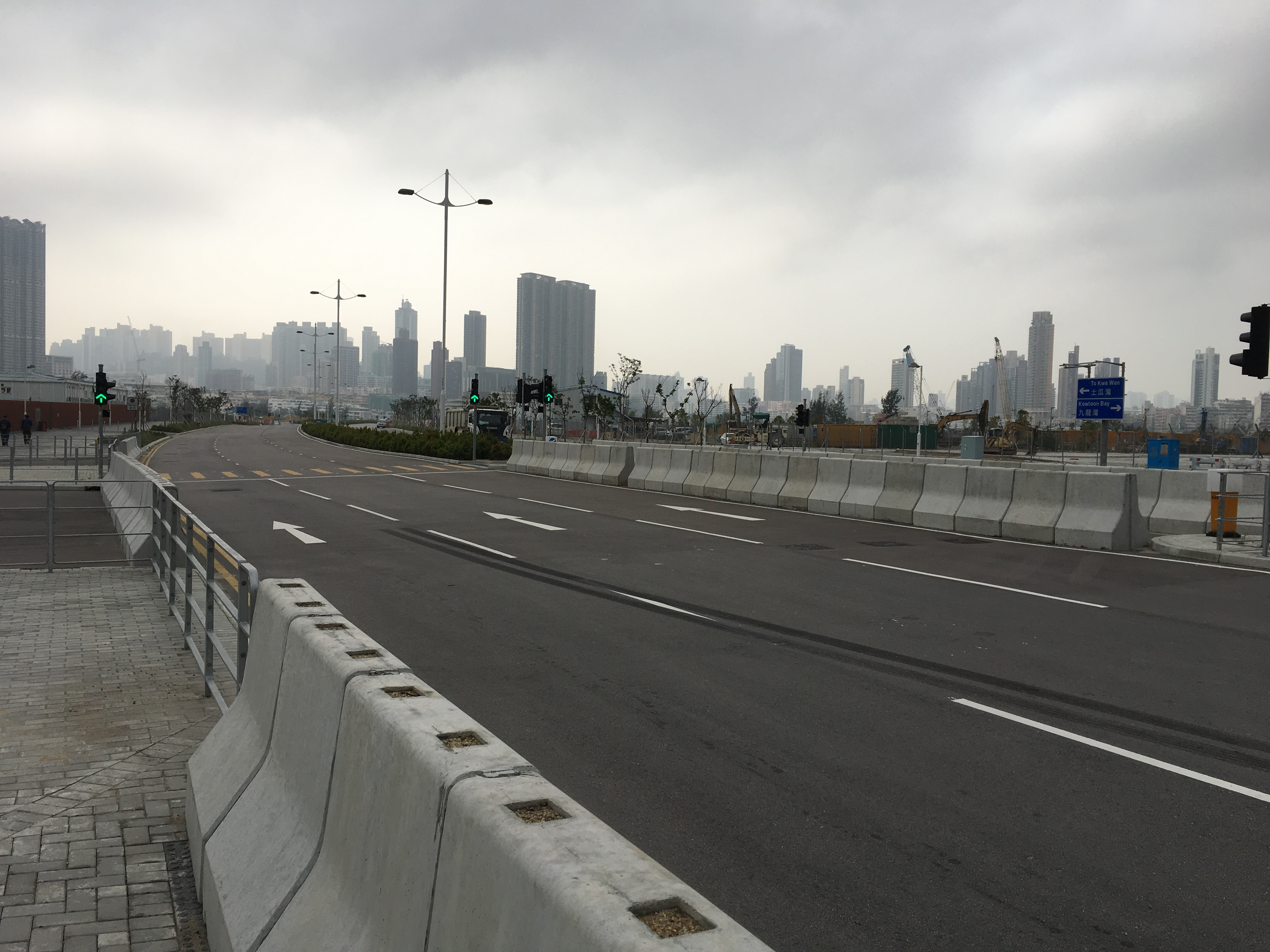 Shing Kai Road, facing To Kwa Wan, at an intersection with a future road, near Kowloon Bay